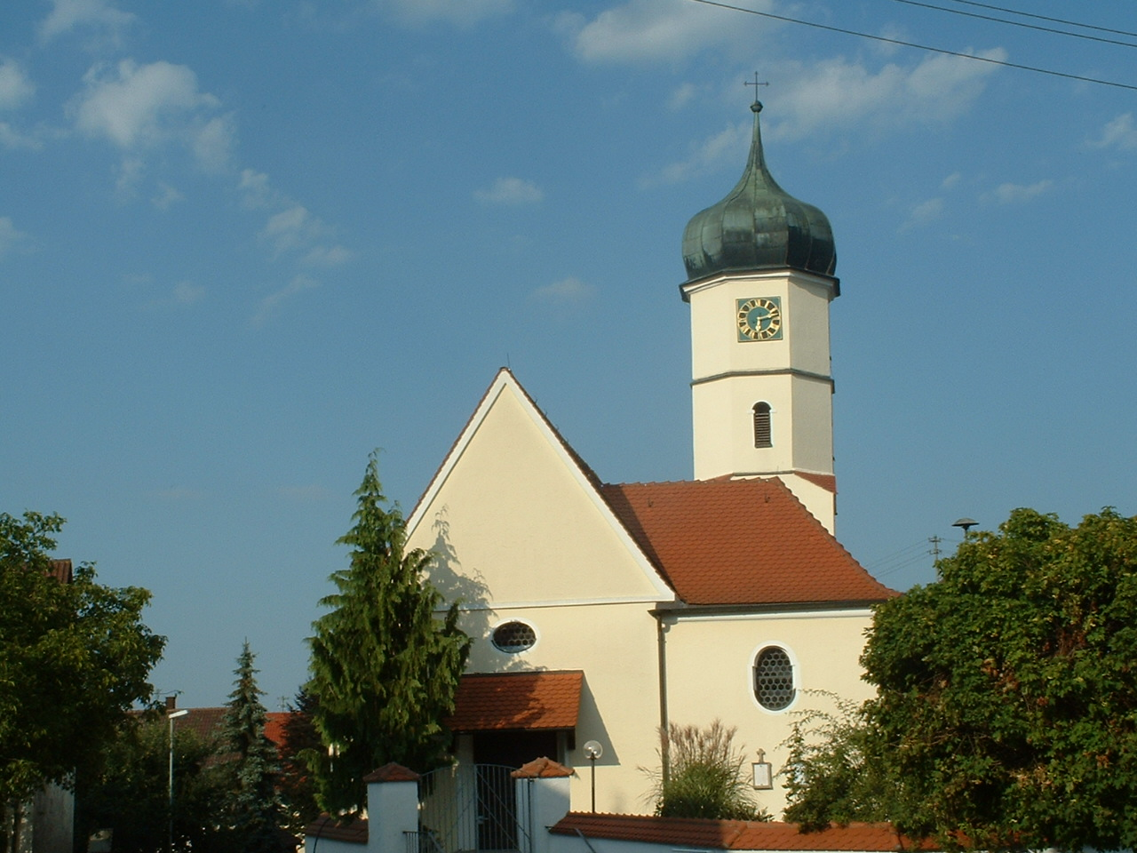 Parish church St Blaise and Margaret in the village of Bronnen, part of the municipality Achstetten in Upper Swabia, Germany